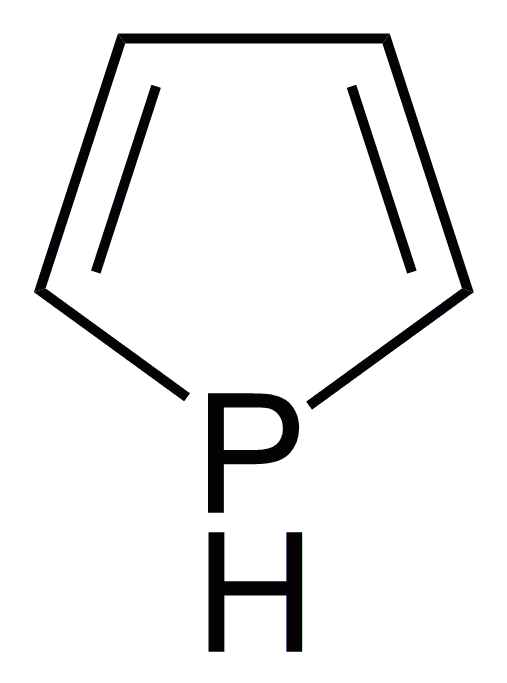 unsubstituted phosphole